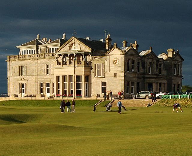 R&A Club House The imposing R&A Club House, viewed across the 18th green from The Links.